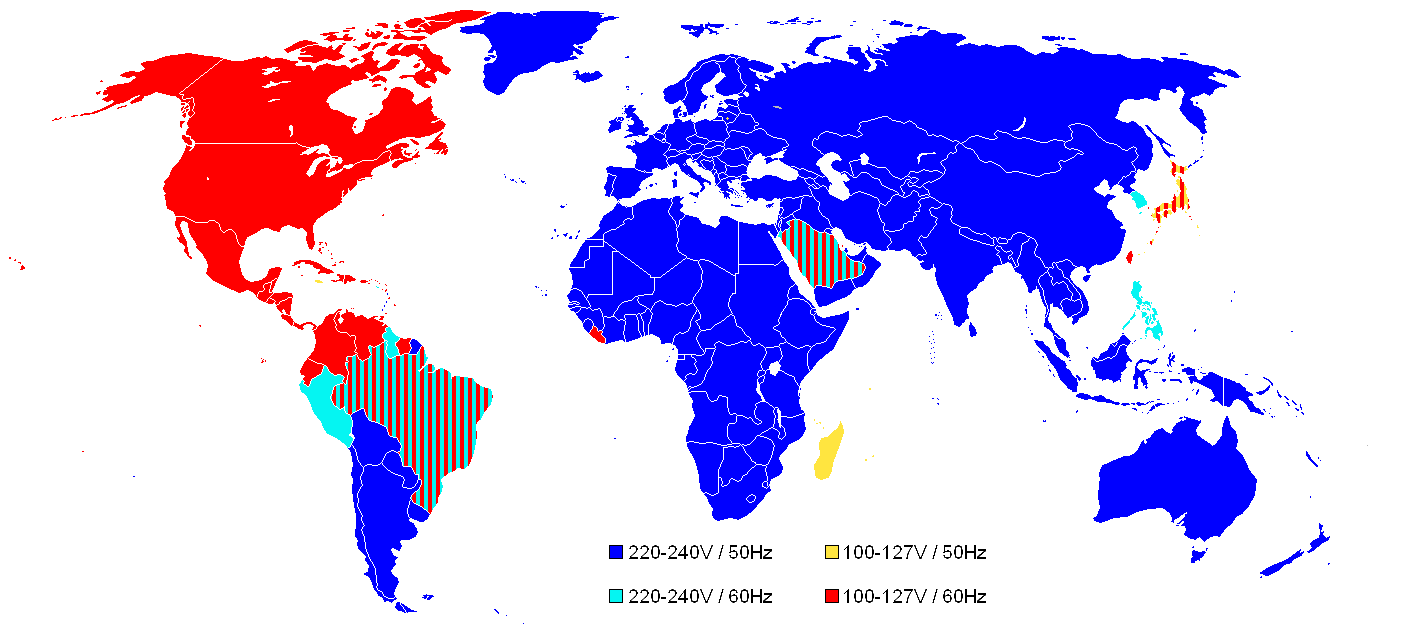 Map of the countries of the world colored by the nominal voltage and frequency they use.